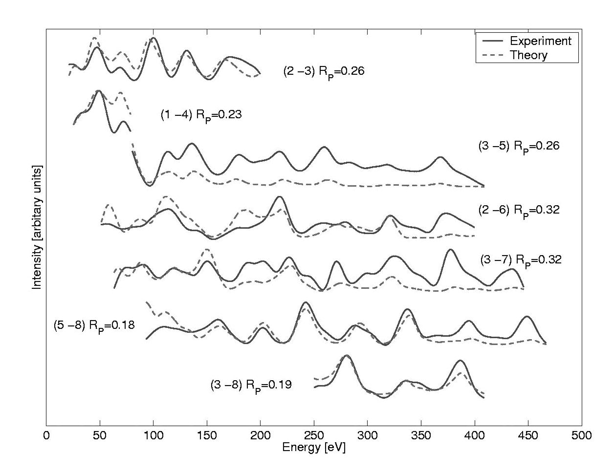 I vs E example